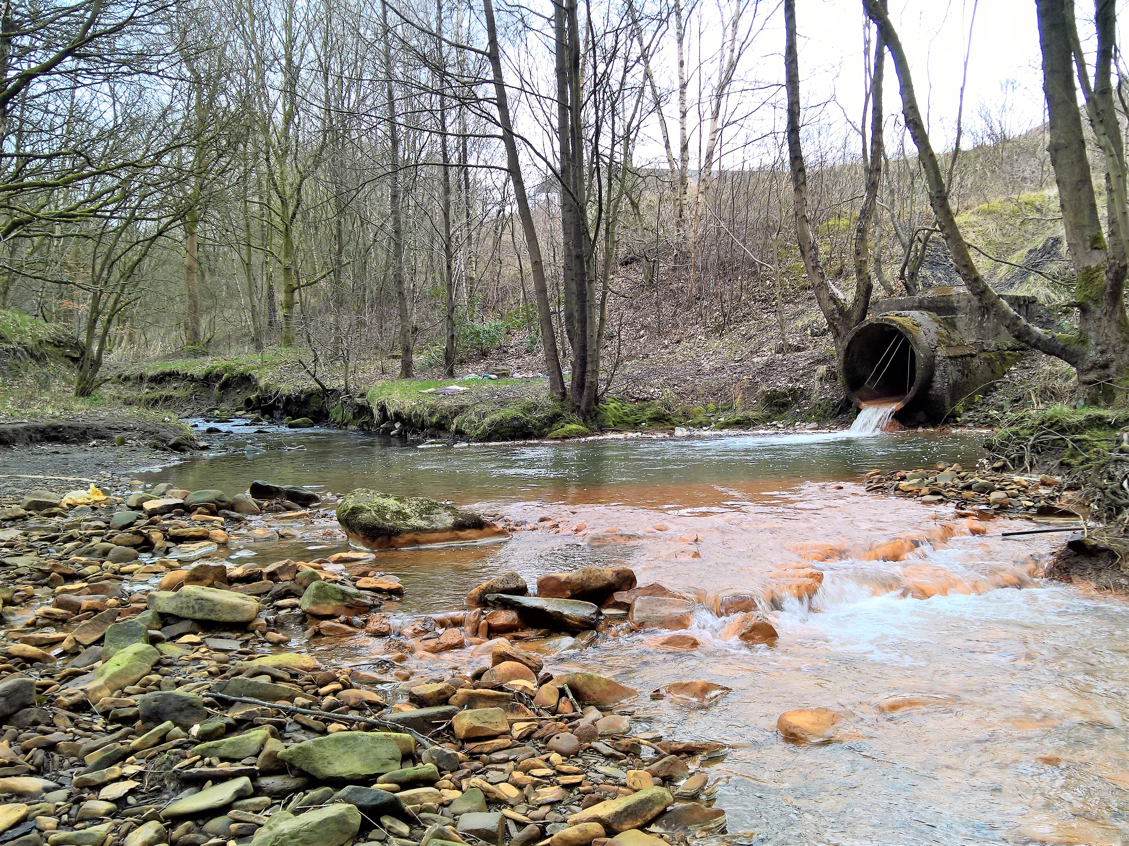 The confluence of Hapton Clough and Habergham Clough in Spa Wood is the start of Green Brook.